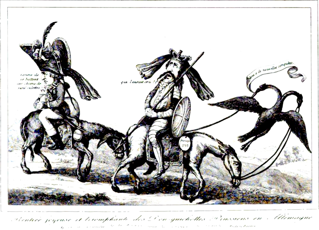 The Triumphant Return of the King of Prussia.